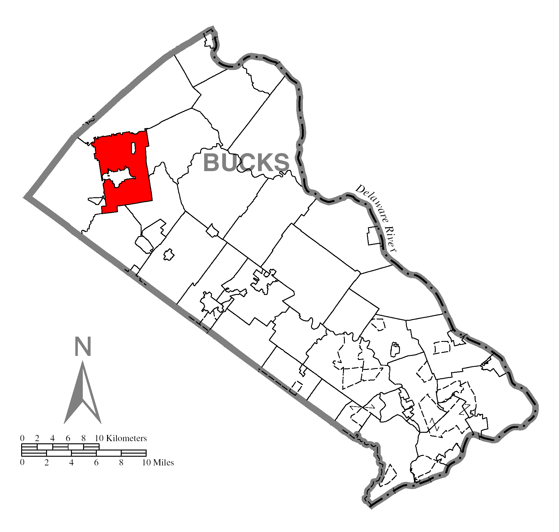 A map of Bucks County showing Richland Township, Pennsylvania (alternate) highlighted on the map.